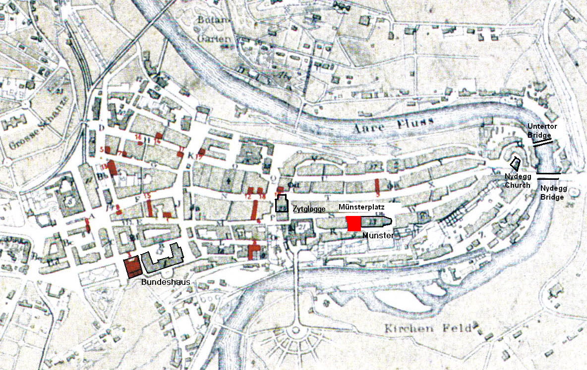 City plan of Bern, 1882. Scanned from BERN: Eine Stadt vor 100 Jahren, Bilder und Berichte; Peter Lauenberger, Emil Erne; München 1997; p. 7. Originally from Bern und seine Umgebungen, C.H. Mann, 1882 in the Alpines Museum of Bern. Due to the age of the image, it must be assumed that the author has been dead for more than 70 years. Copyright protection has therefore lapsed under Swiss copyright law (Art. 29 par. 3 URG).